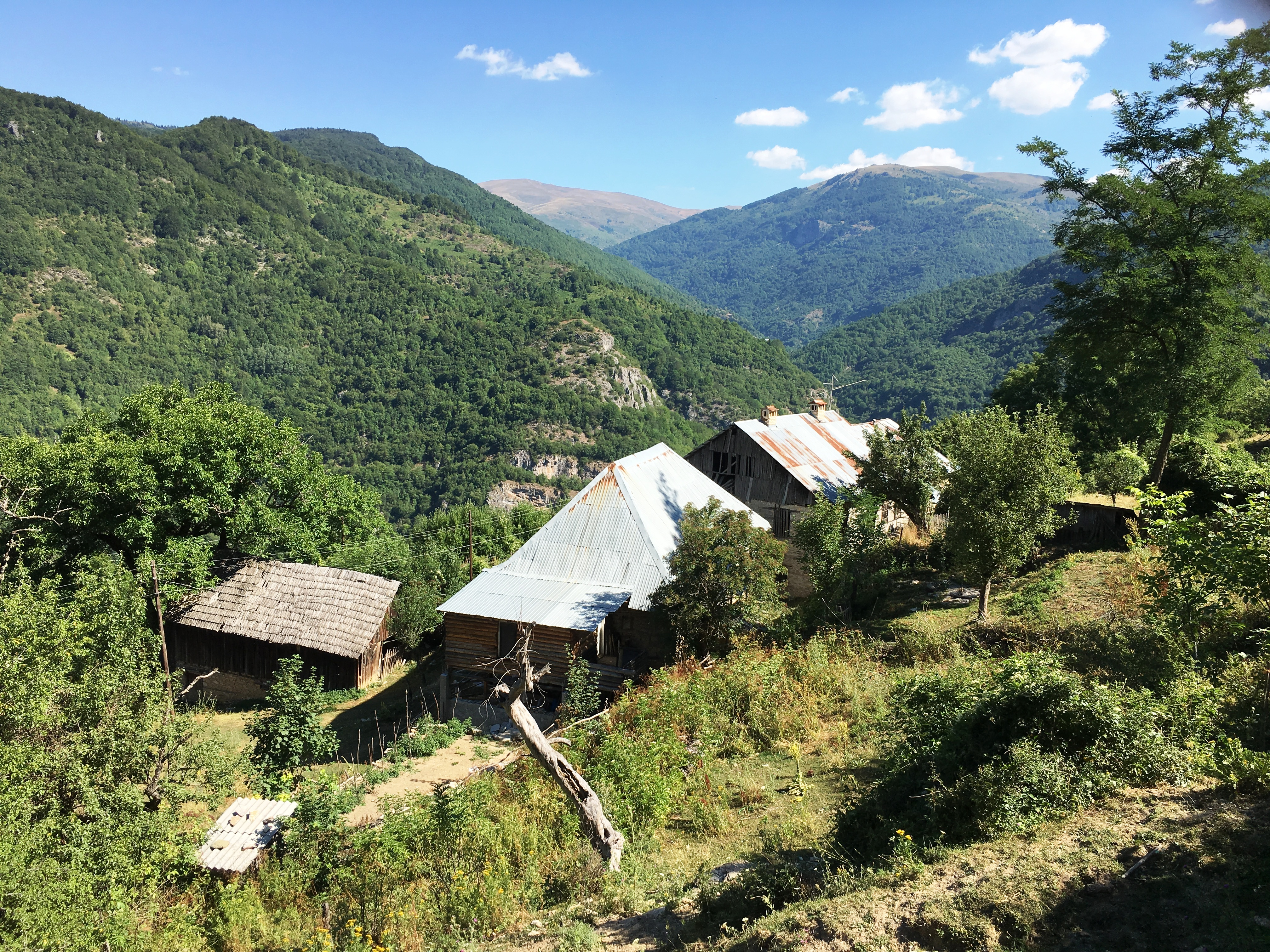 View of the village of Volkovija